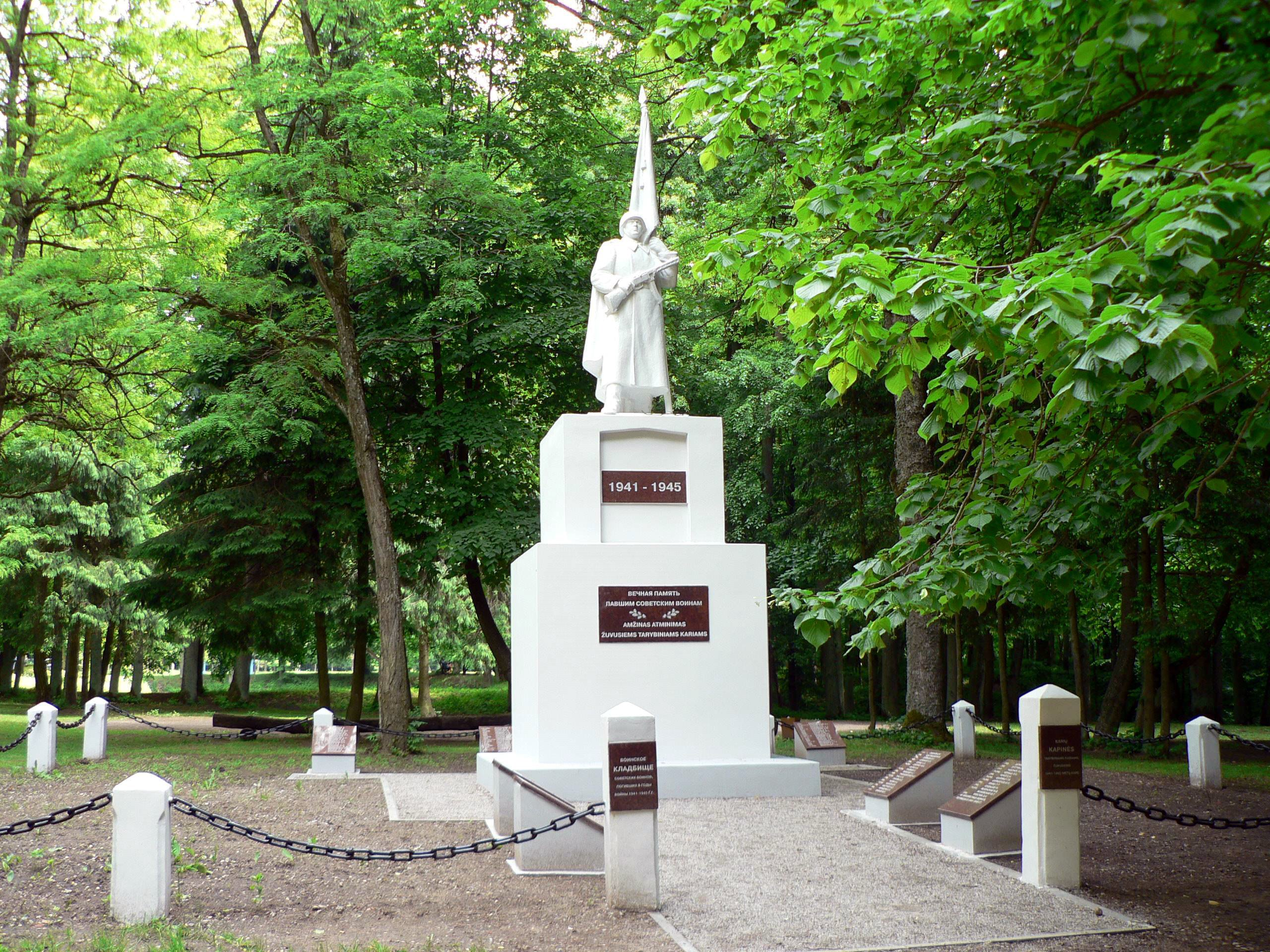 Red Army monument in Raudonė, Lithuania. (restored 2005) Author: Wojsyl, 2005